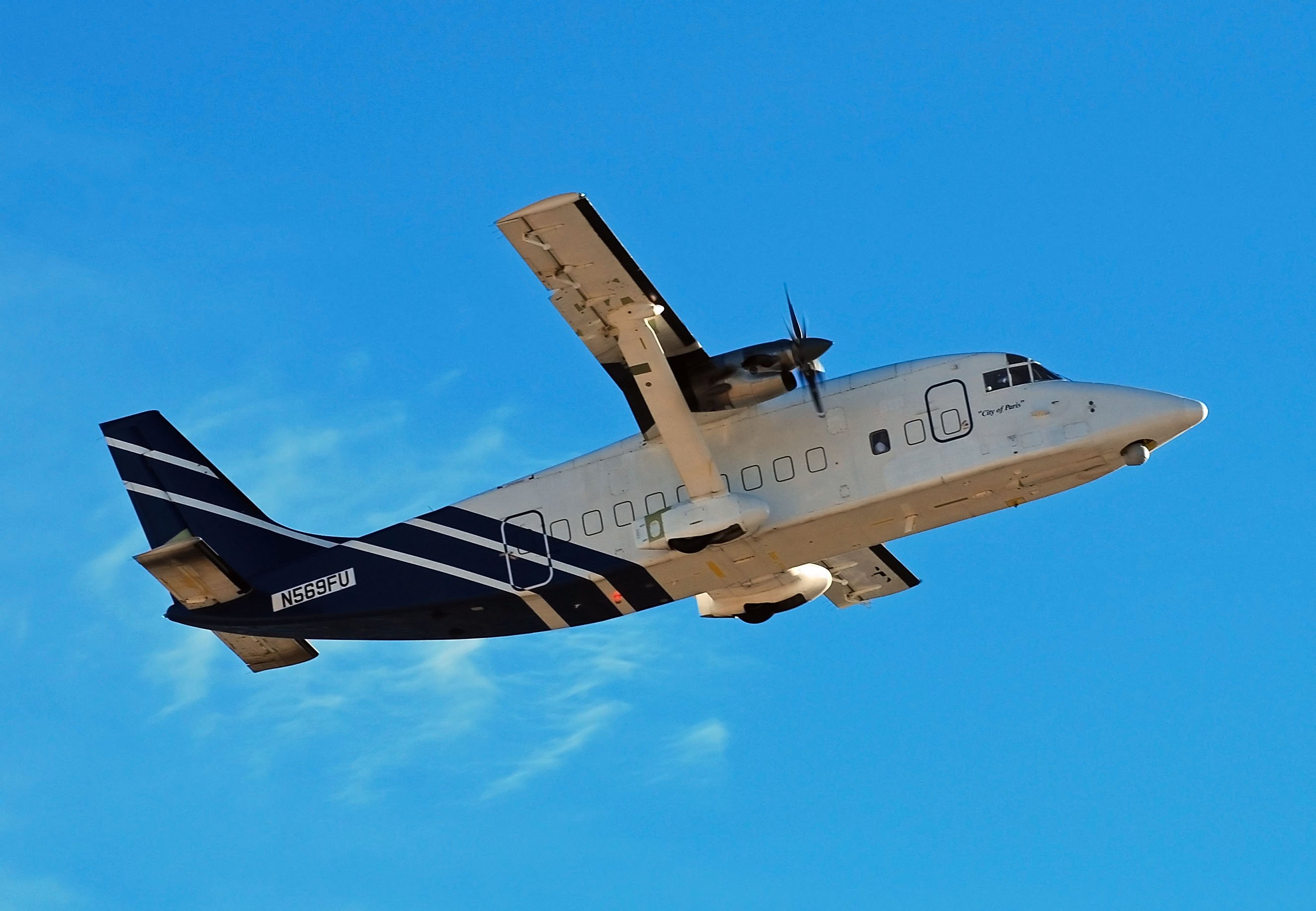 North Las Vegas Airport (IATA: VGT, ICAO: KVGT, FAA LID: VGT) Photo: TDelCoro Dec-14-2010